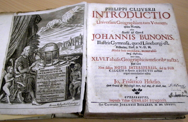 Philipp Clüver, Introductio von 1686